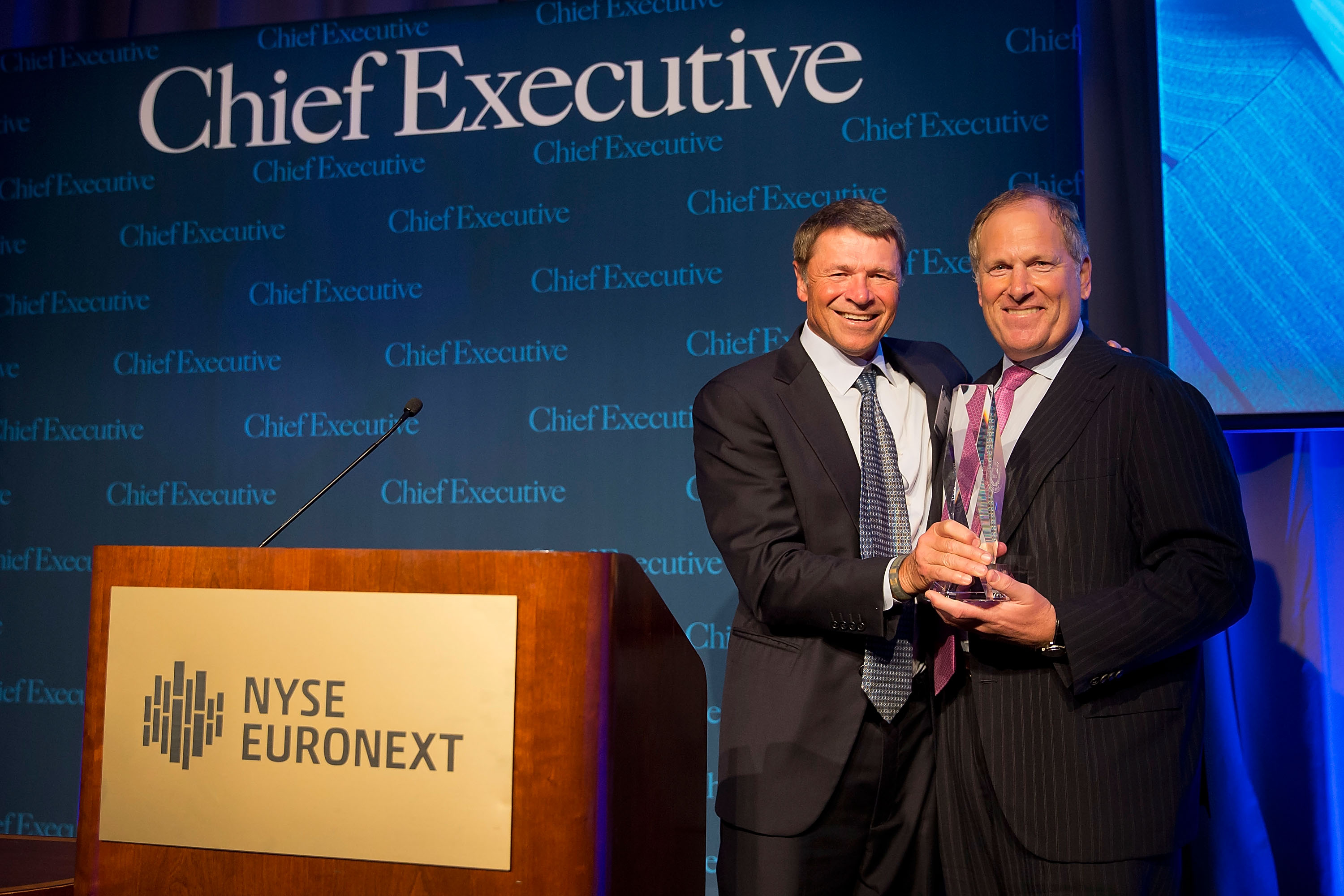 Honeywell Chairman and CEO Dave Cote (right) accepts Chief Executive Magazine's 2013 CEO of the Year award from the 2012 recipient, Yum! Brands CEO David Novak (left).